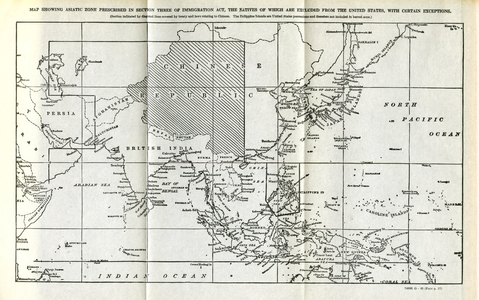 Map showing Asiatic zone prescribed in section three of Immigration Act, the natives of which are excluded from the United State, with certain exceptions